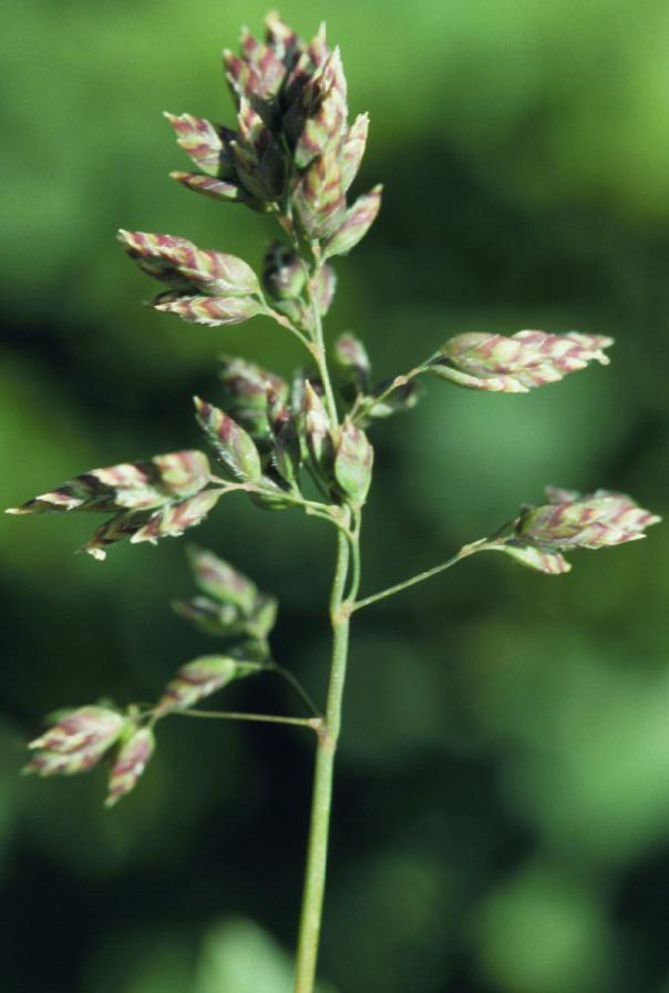 The inflorescence is a pyramidal panicle.